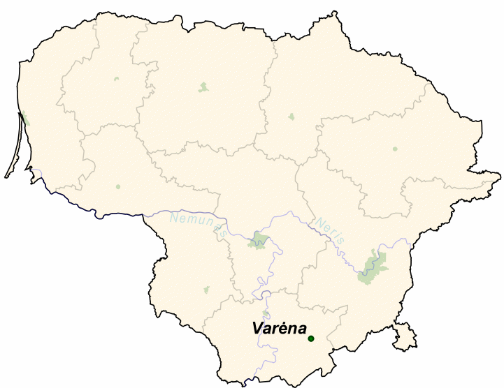 Varėna on the map of Lithuania